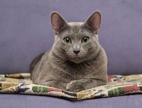 Russian blue cat from Finland. Age 1 year 1 month.